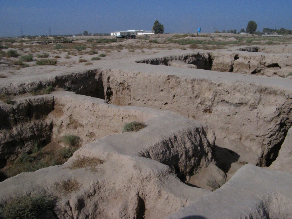 The archeological site of Dalverzine Tepe, close to Denau - Surkhandarya region.